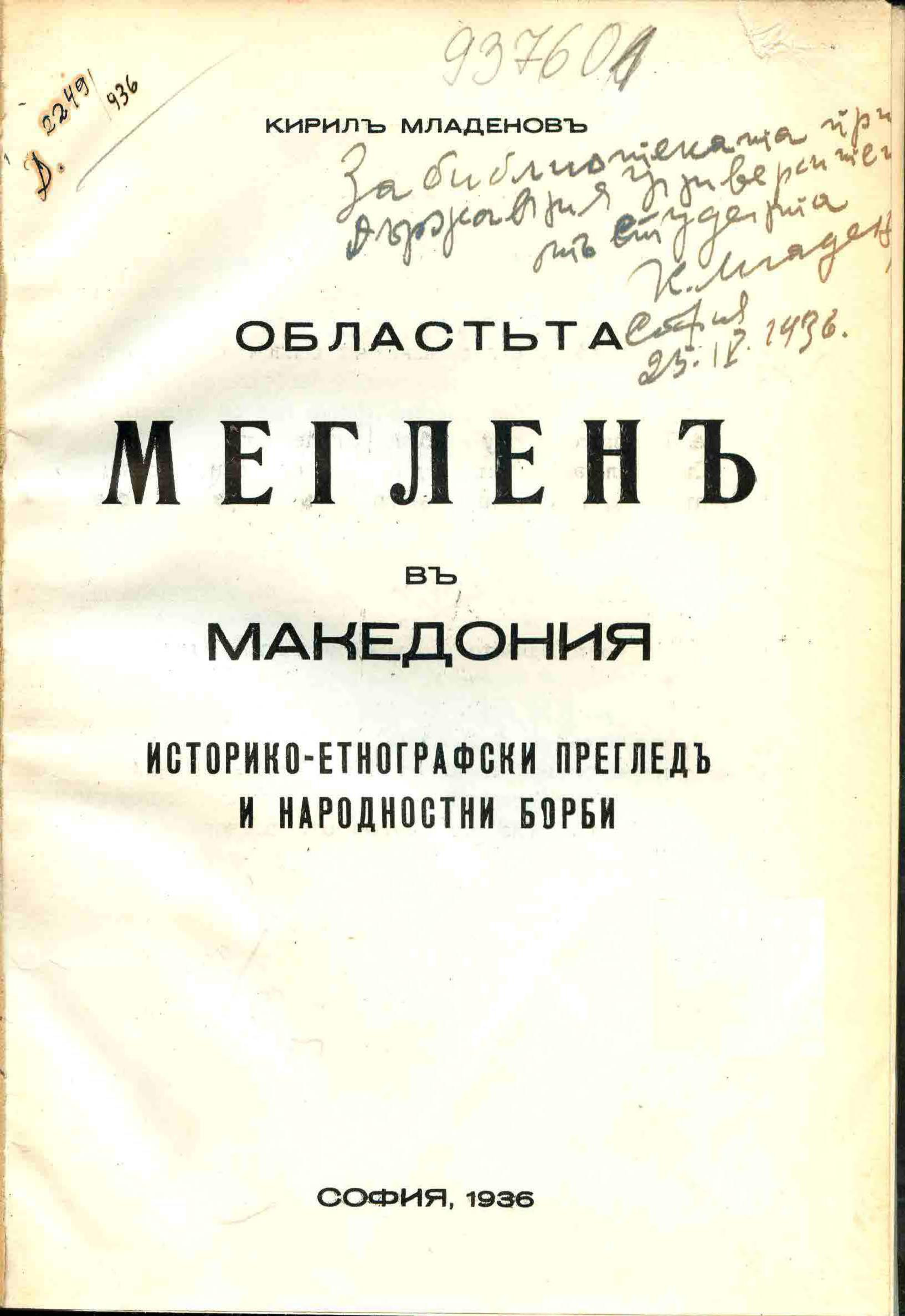 Cover of his book "Meglen", 1936